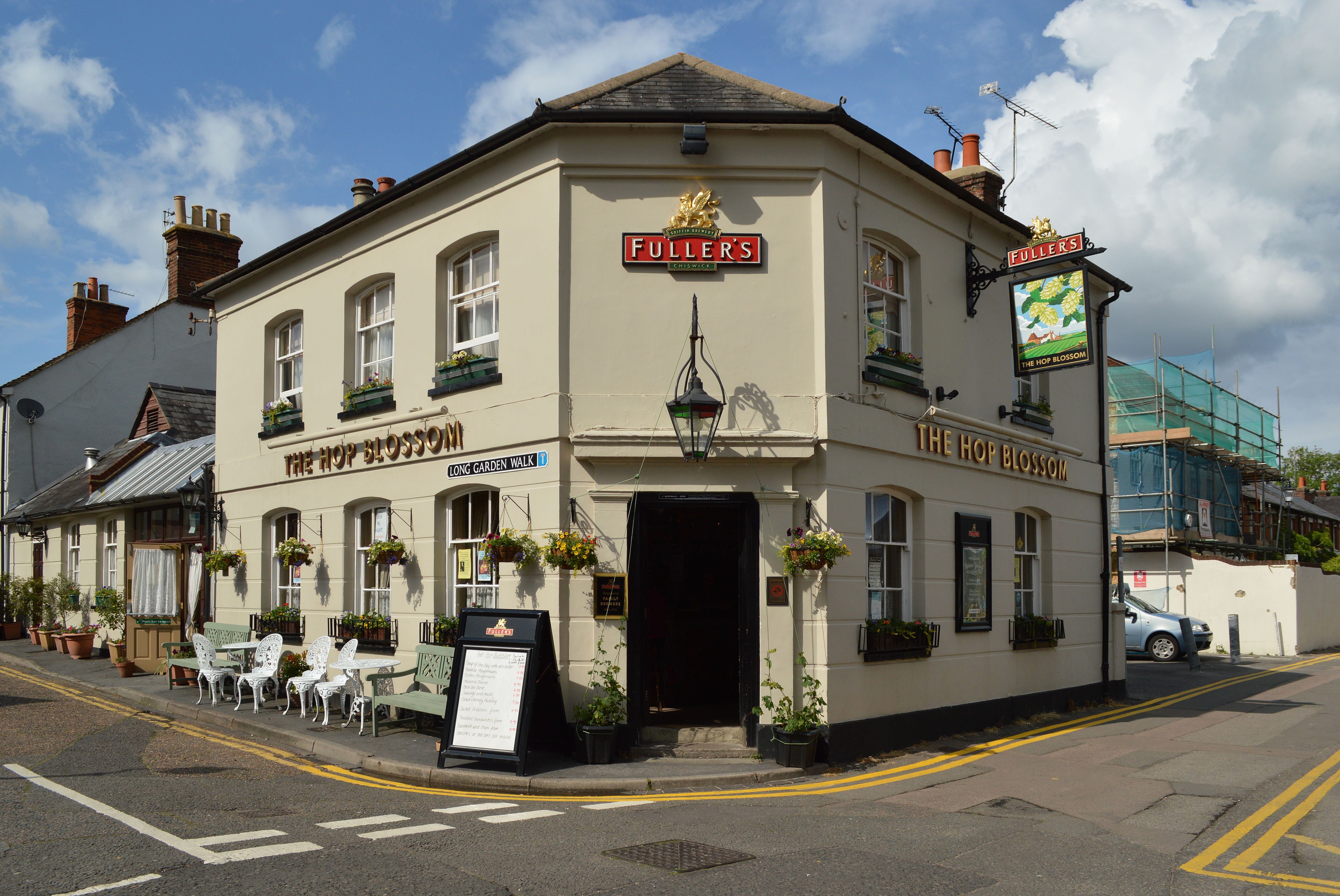 The Hop Blossom, Farnham